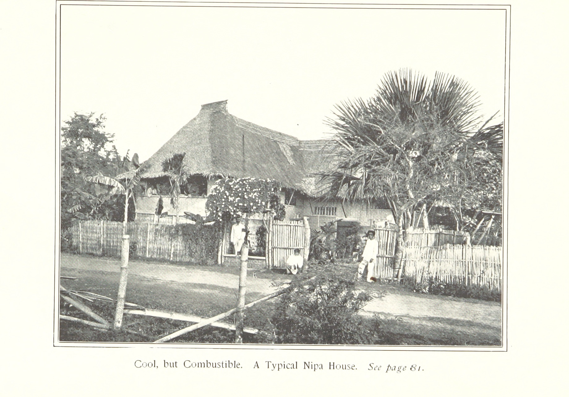 Image taken from: Title: "Yesterdays in the Philippines ... Illustrated" Author: STEVENS, Joseph Earle. Shelfmark: "British Library HMNTS 010055.g.6." Page: 263 Place of Publishing: London Date of Publishing: 1898 Publisher: Sampson Low & Co. Issuance: monographic Identifier: 003499835 Note: The colours, contrast and appearance of these illustrations are unlikely to be true to life. They are derived from scanned images that have been enhanced for machine interpretation and have been altered from their originals. If you wish to purchase a high quality copy of the page that this image is drawn from, please order it here. Please note that you will need to enter details from the above list - such as the shelfmark, the page, the book's volume and so on - when filling out your order. Following this or the link above will take you to the British Library's integrated catalogue. You will be able to download a PDF of the book this image is taken from, as well as view the pages up close with the 'itemViewer'. Click on the 'related items' to search for the electronic version of this work. Click here to see all the illustrations in this book and click here to browse other illustrations published in books in the same year. Please click on the tags shown on the right-hand side for other ways to browse the illustrations.